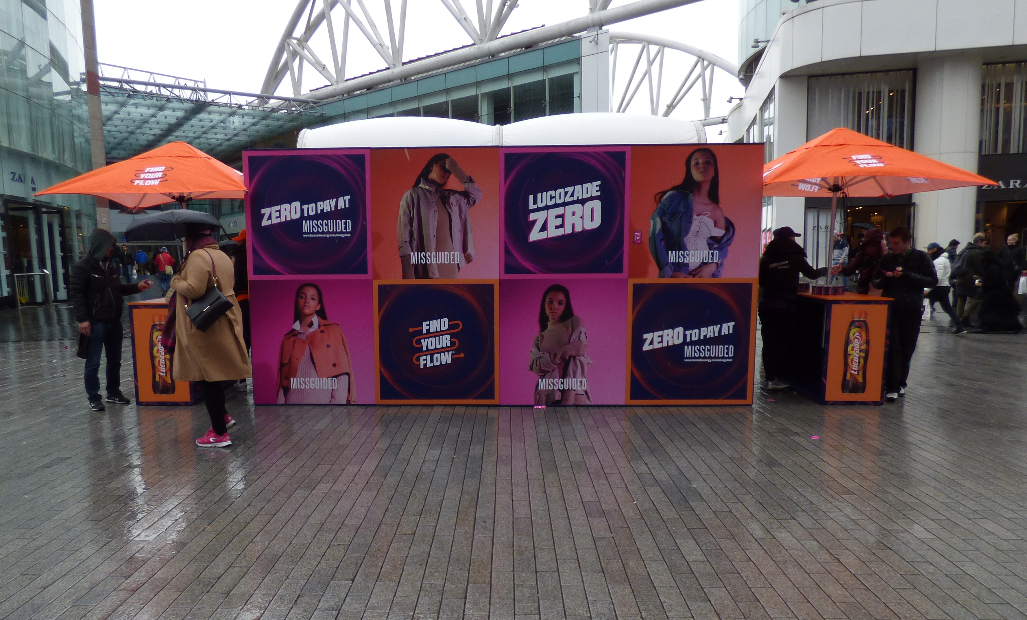 Lucozade Zero - Rotunda Square, Bullring Seen while it was raining in Birmingham. Find your flow. Zero to pay at Missguided. Zero to it strut through it. Zero to pay it.